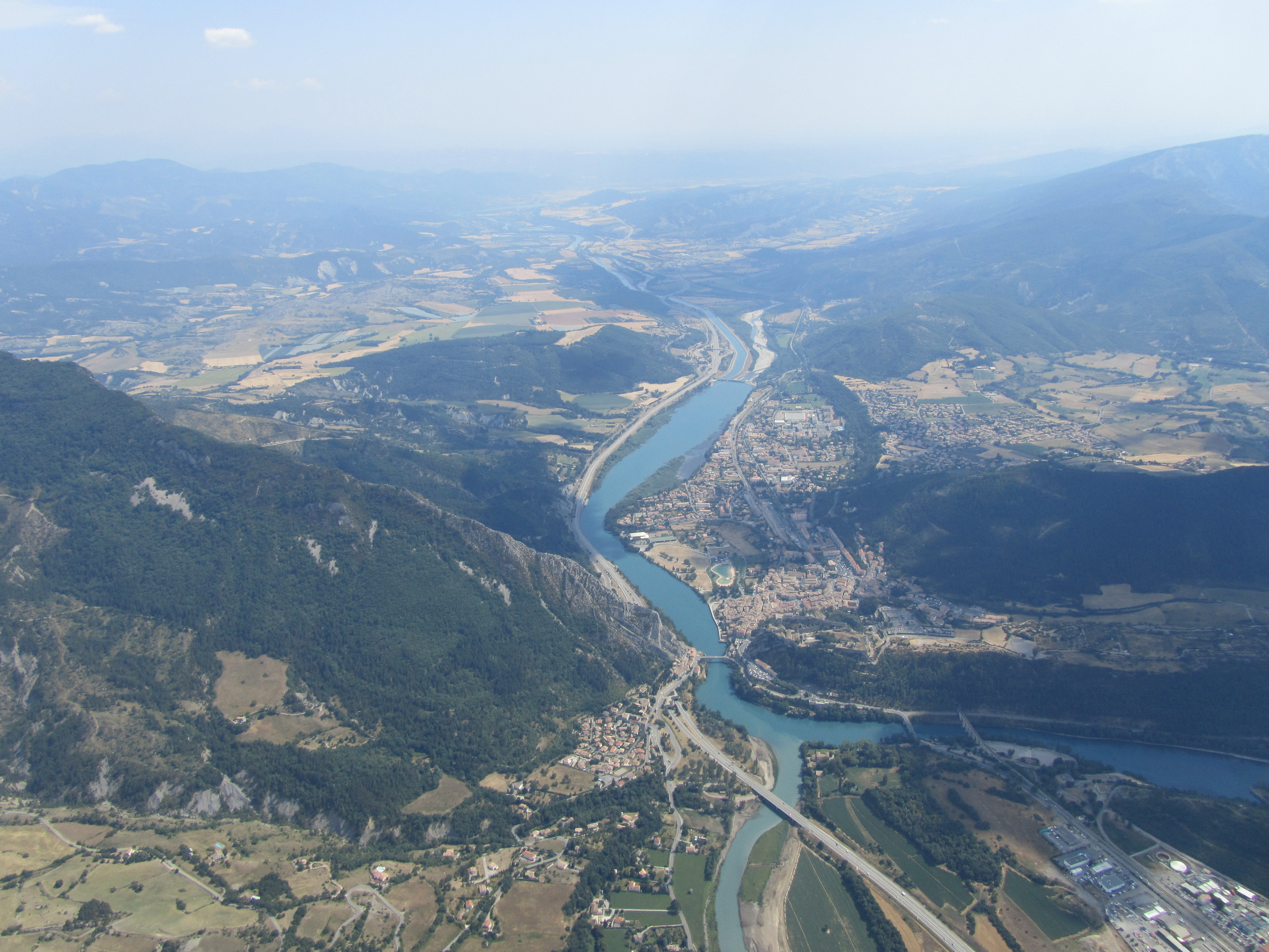 Aerial view of Sisteron, Alpes de Hautes Provence, France 2012 looking south